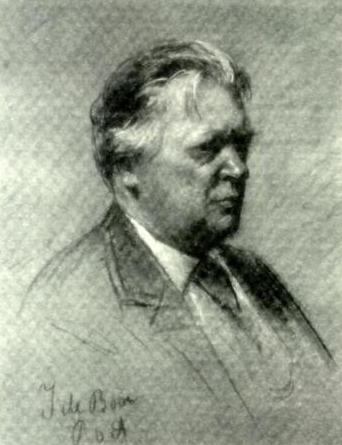 Theodor Kirchner, pastel picture by Julie de Boor, 1898